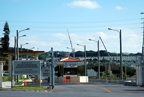 Camp Foster Gate 4